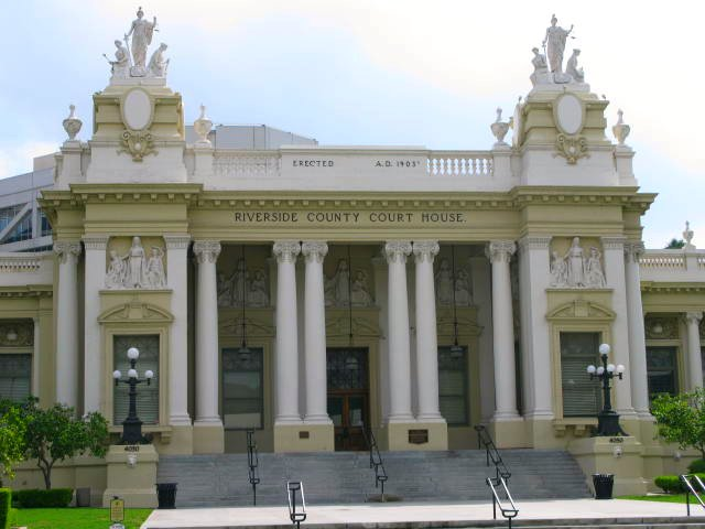 The Riverside County Courthouse, Riverside, California. A Beaux-Arts style building built in 1903.